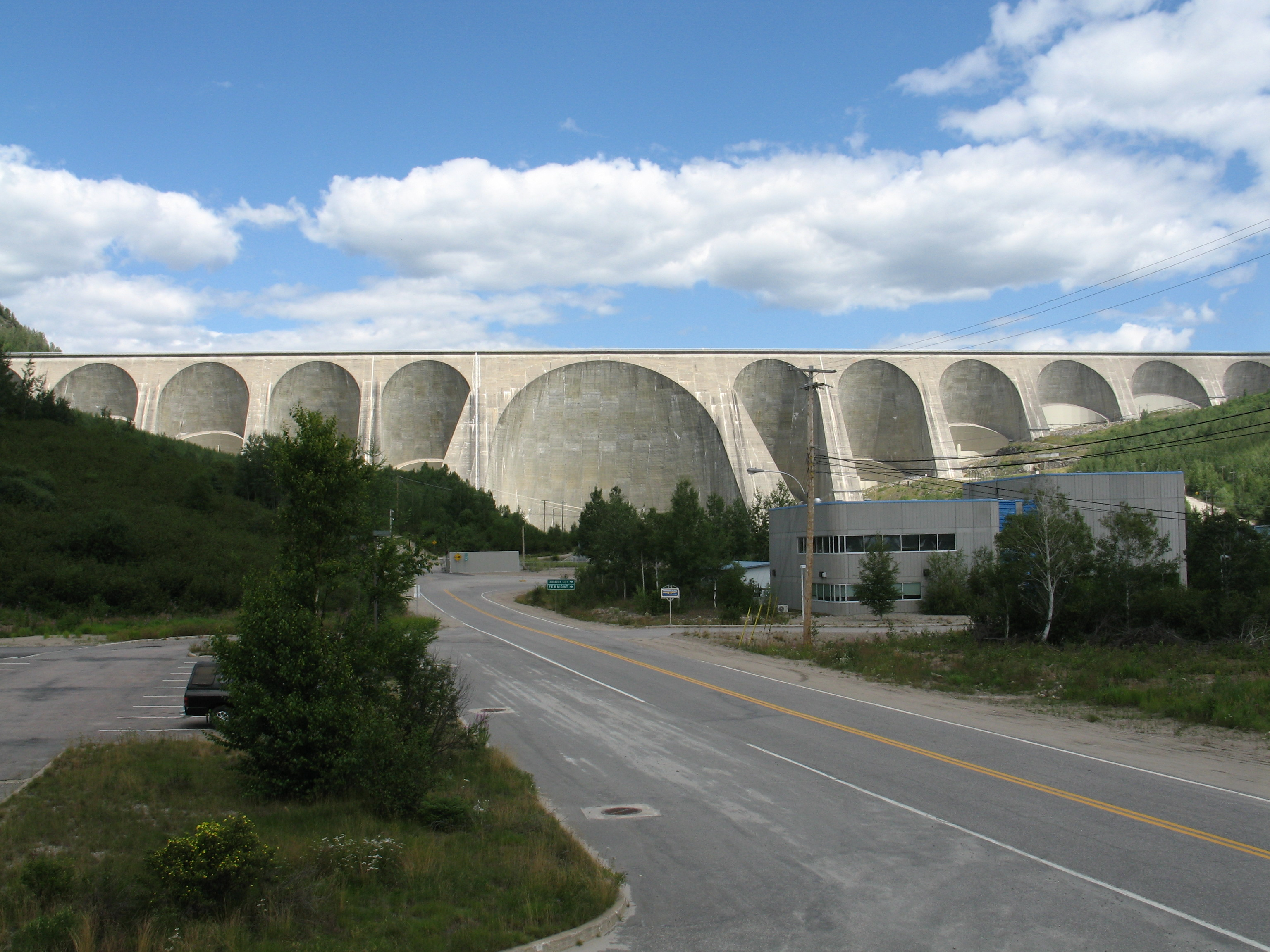 The Daniel-Johnson Dam, located 214 km north of Baie-Comeau, Quebec. The dam constructed between 1962 and 1968 is the cornerstone of Hydro-Quebec's Manic-cinq hydroelectric complex. The two electric generating stations located there have an installed capacity of 2592 MW.